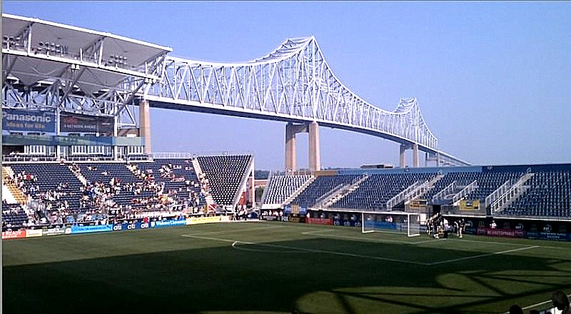 PPL Park before semi-final game between Philadelphia Independence and majikjack in 2010